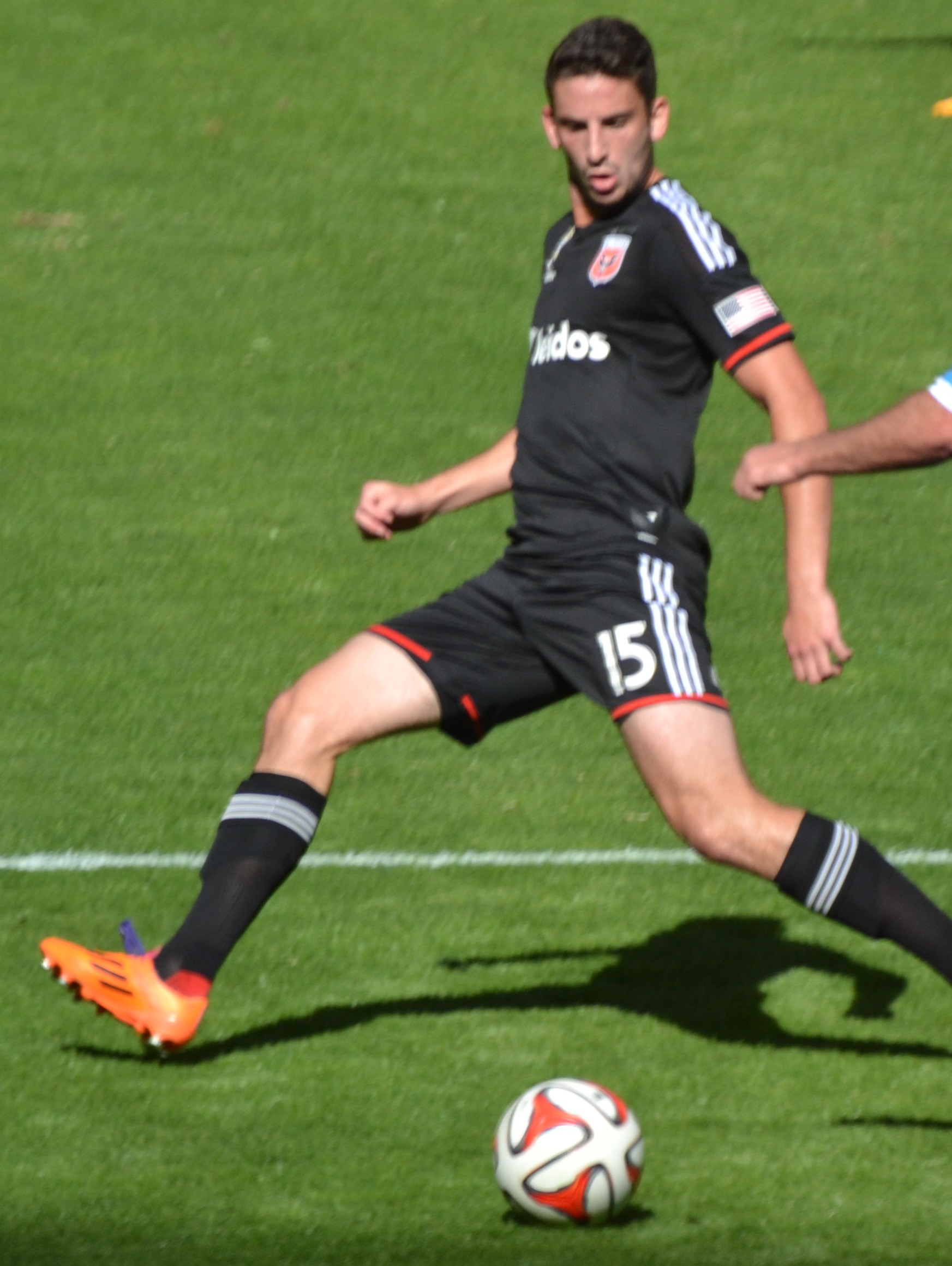 Steve Birnbaum playing for DC United